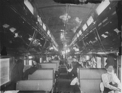 The interior of a Chicago and Alton Railroad Pullman car circa 1900. Photo by Detroit Publishing Co, c. 1900. Library of Congress call number LC-D4-42202. [1] asserts: "The Library of Congress is not aware of any U.S. copyright or any other restrictions in the photographs in this collection."